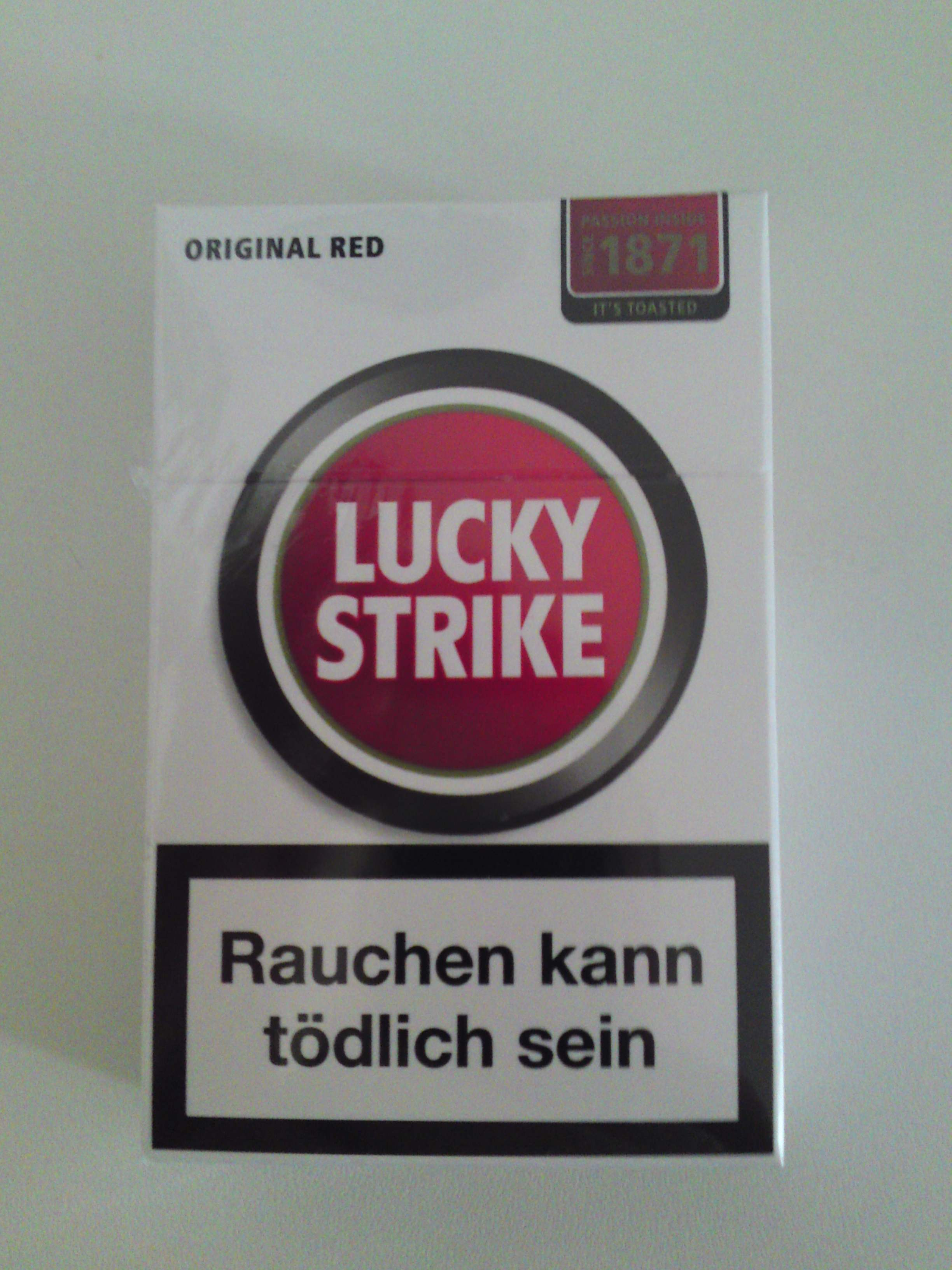 New 2010 packaging of Lucky Strike cigarettes